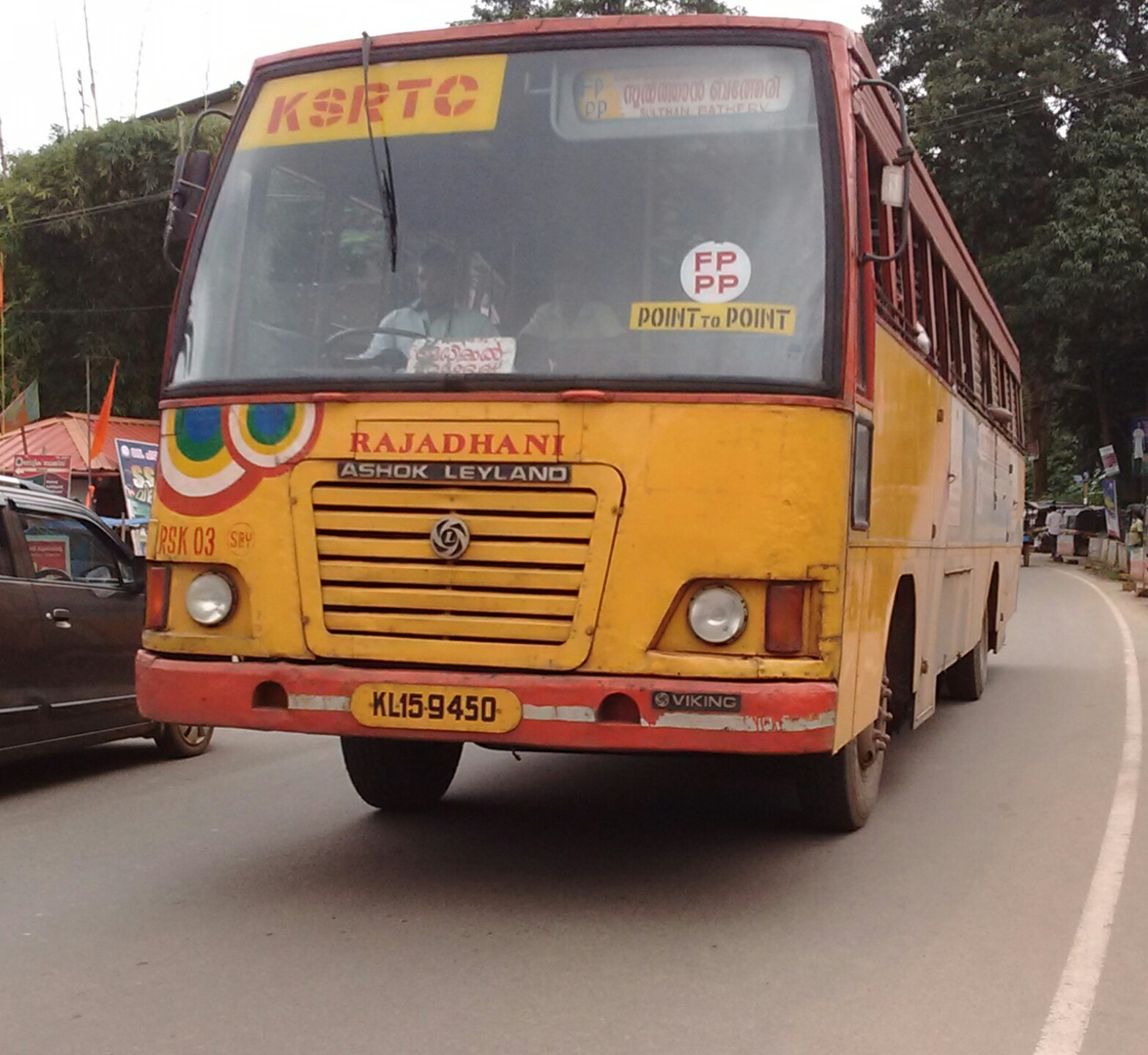 RSK 03